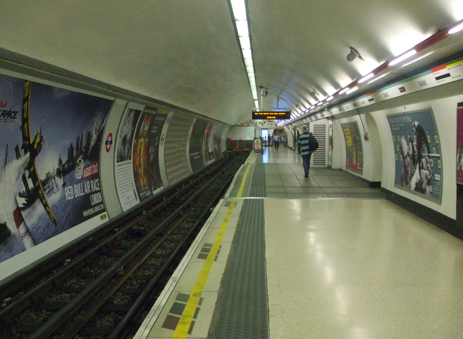 One of two Waterloo & City line platforms at Bank tube station looking "to buffers"